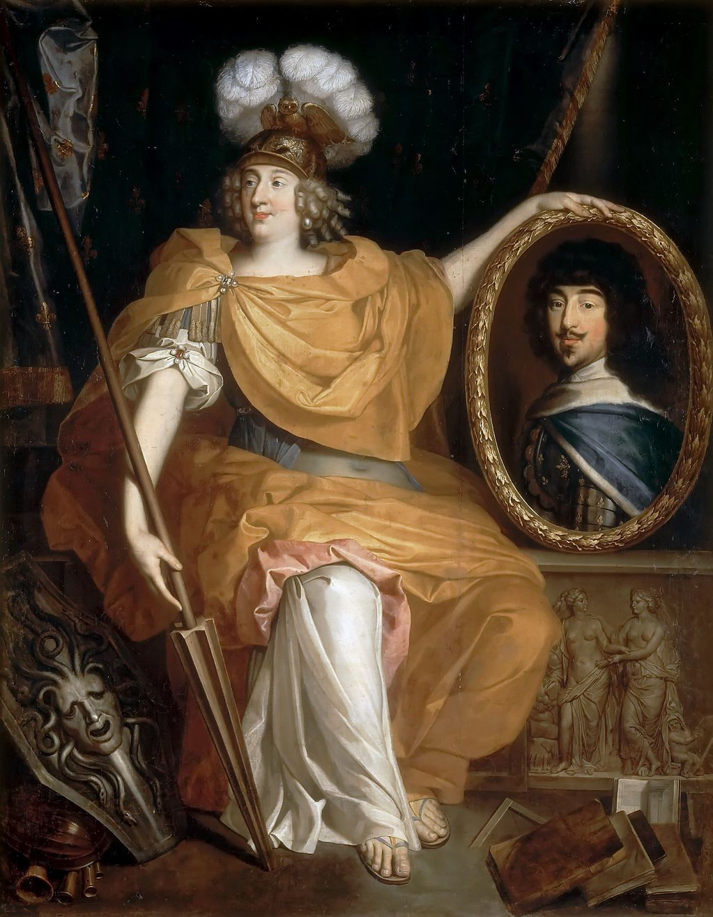 Depicted person: Anne-Marie-Louise d'Orléans – she was known as "La Grande Mademoiselle". On this picture the duchess is represented as Minerva, protectress of Arts. She holds a medallion portrait of her father Gaston of France, duke of Orleans (1608-1660).